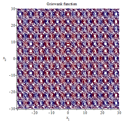 2nd order Griewank function contour plot